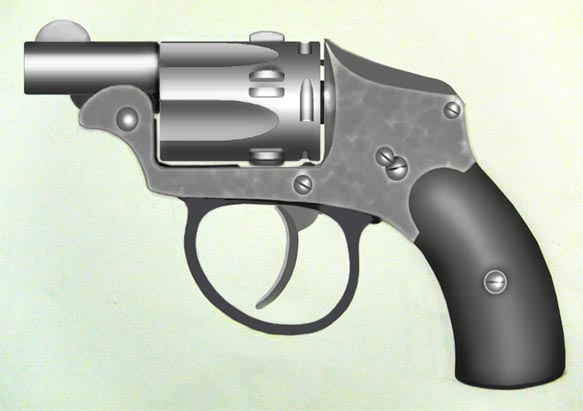 Revolver Galand Velo-dog mod. 1894